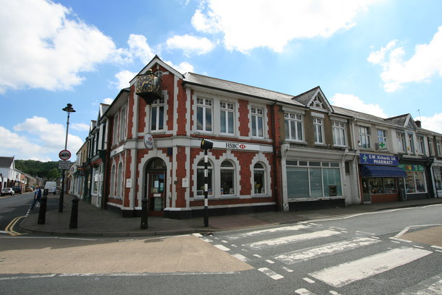 Junction in the heart of Ystradgynlais Town